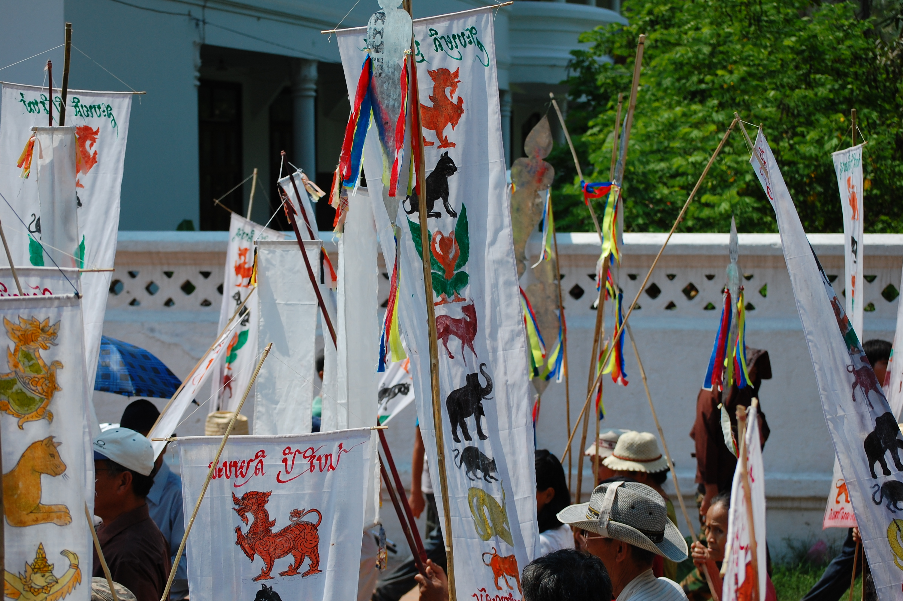 People holdings banner with animal drawings during Lao New Year.